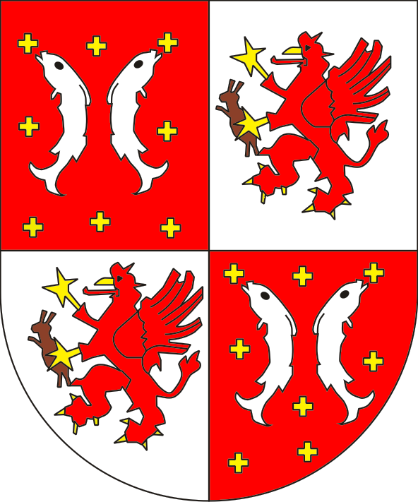 coats of arms of the county of Salm-Neuburg; 1,4: county of Salm; 2,3: county of Neuburg